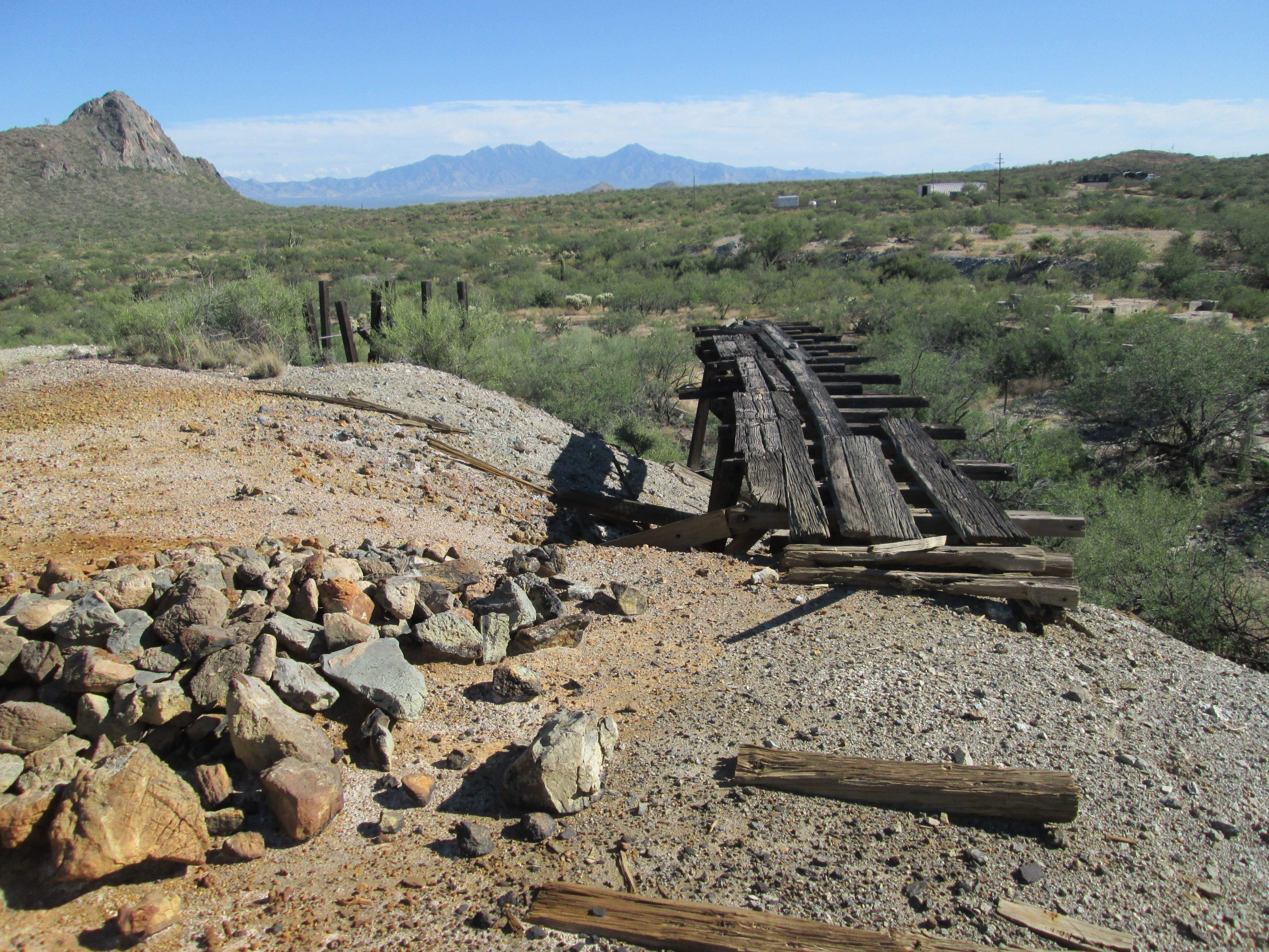 View of an abandoned and deteriorating narrow gauge railroad trestle at San Xavier in Pima County, Arizona. Helmet Peak is at the left, and the Santa Rita Mountains are in the background. A few modern buildings can also be seen in the background at the right. October 2013